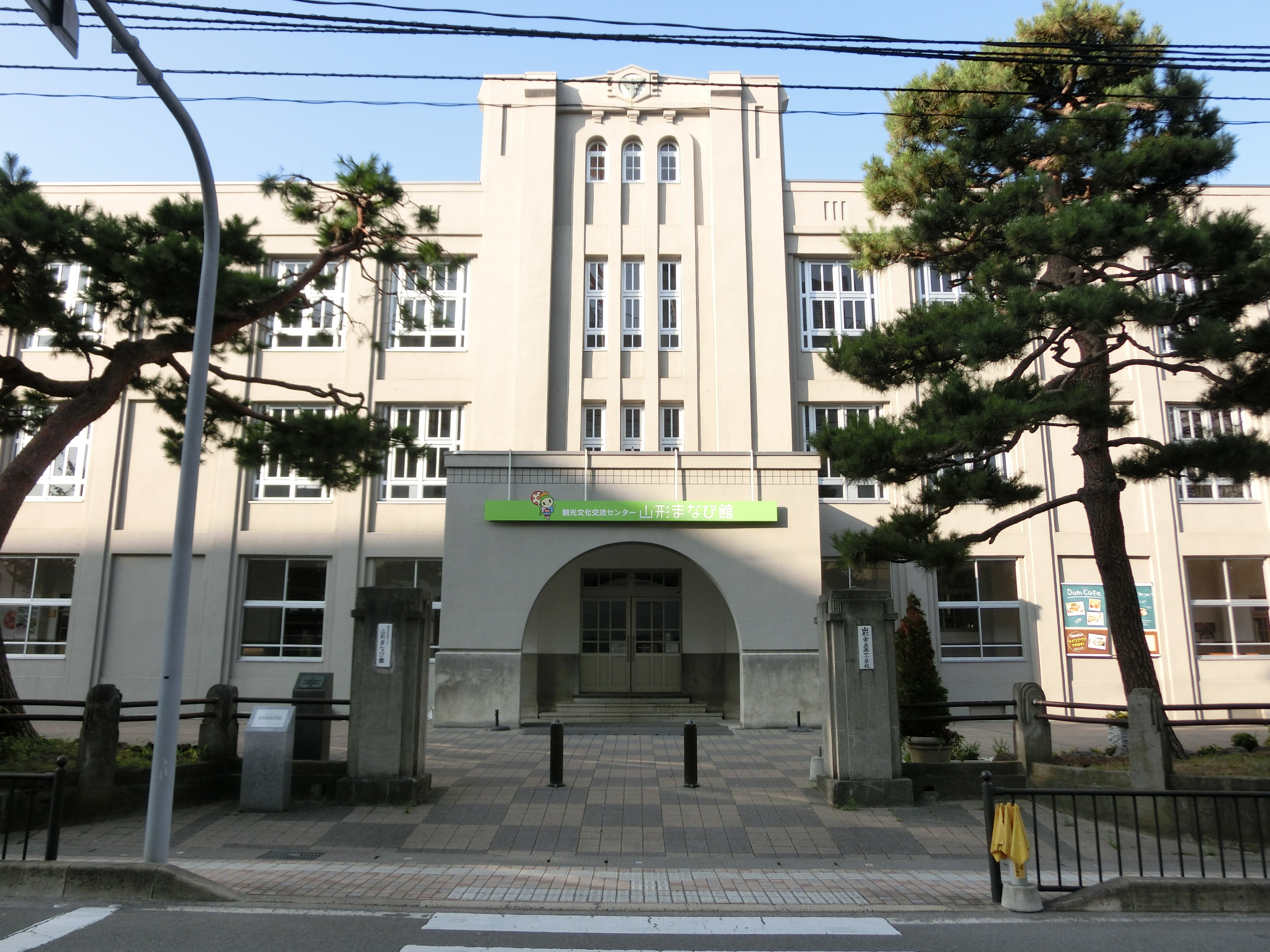 Yamagata Manabikan